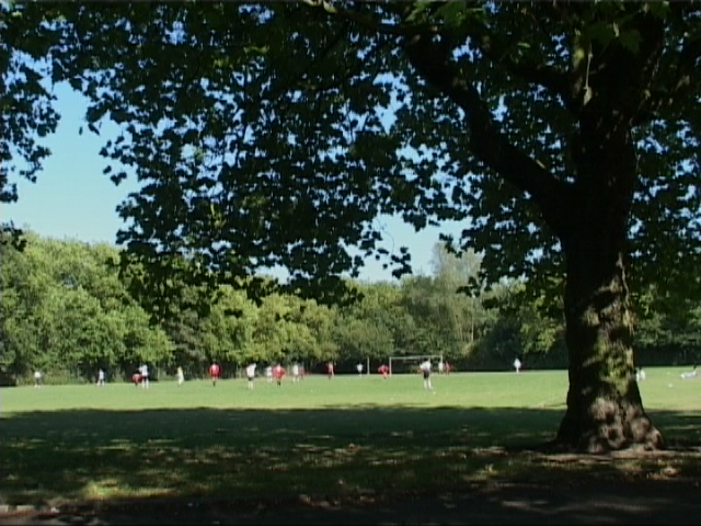 Photo taken in Black Patch Park in Summer 2004 by Sibadd 23:09, 11 March 2006 (UTC)